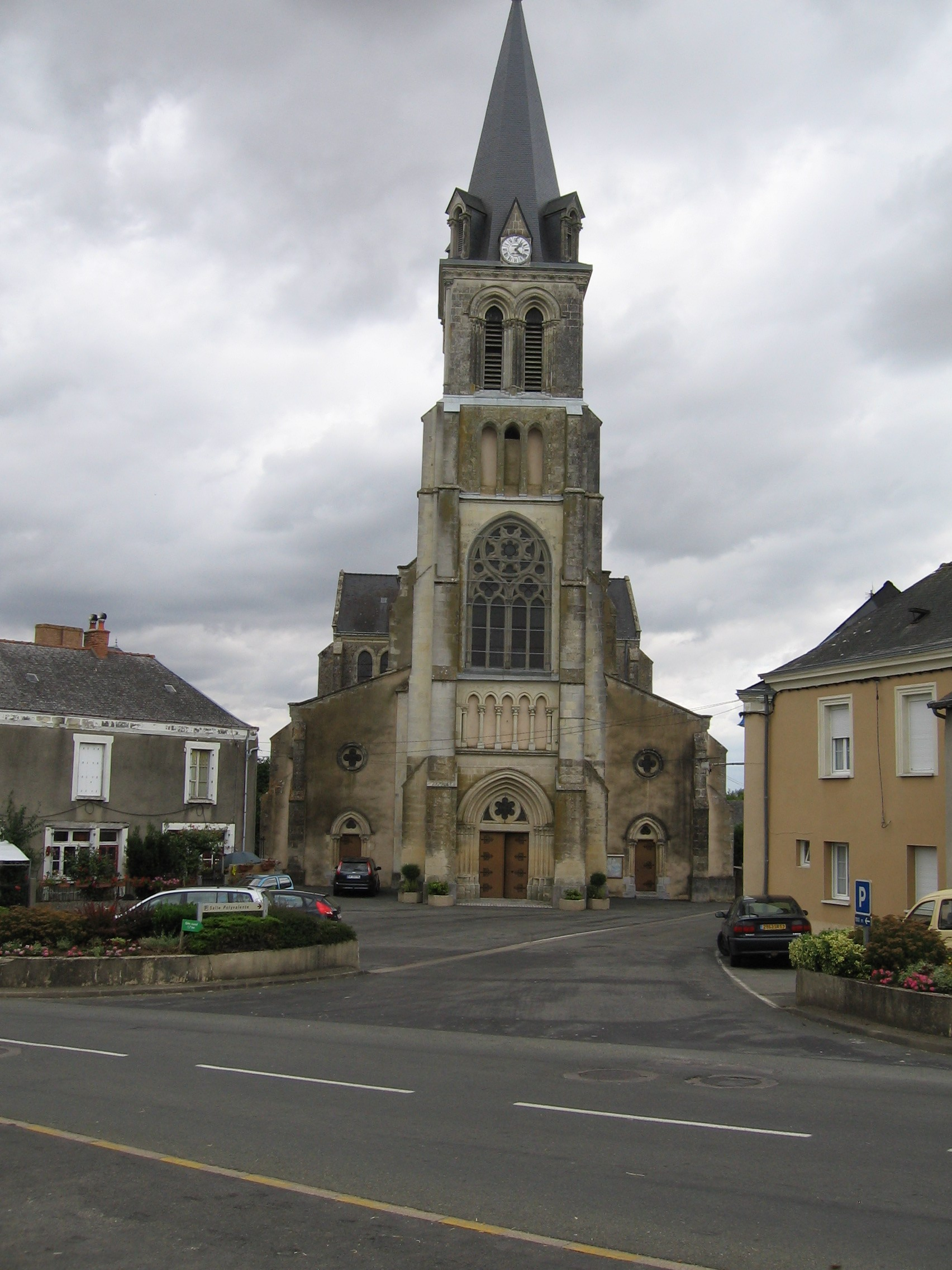 The church of Grez-en-Bouère